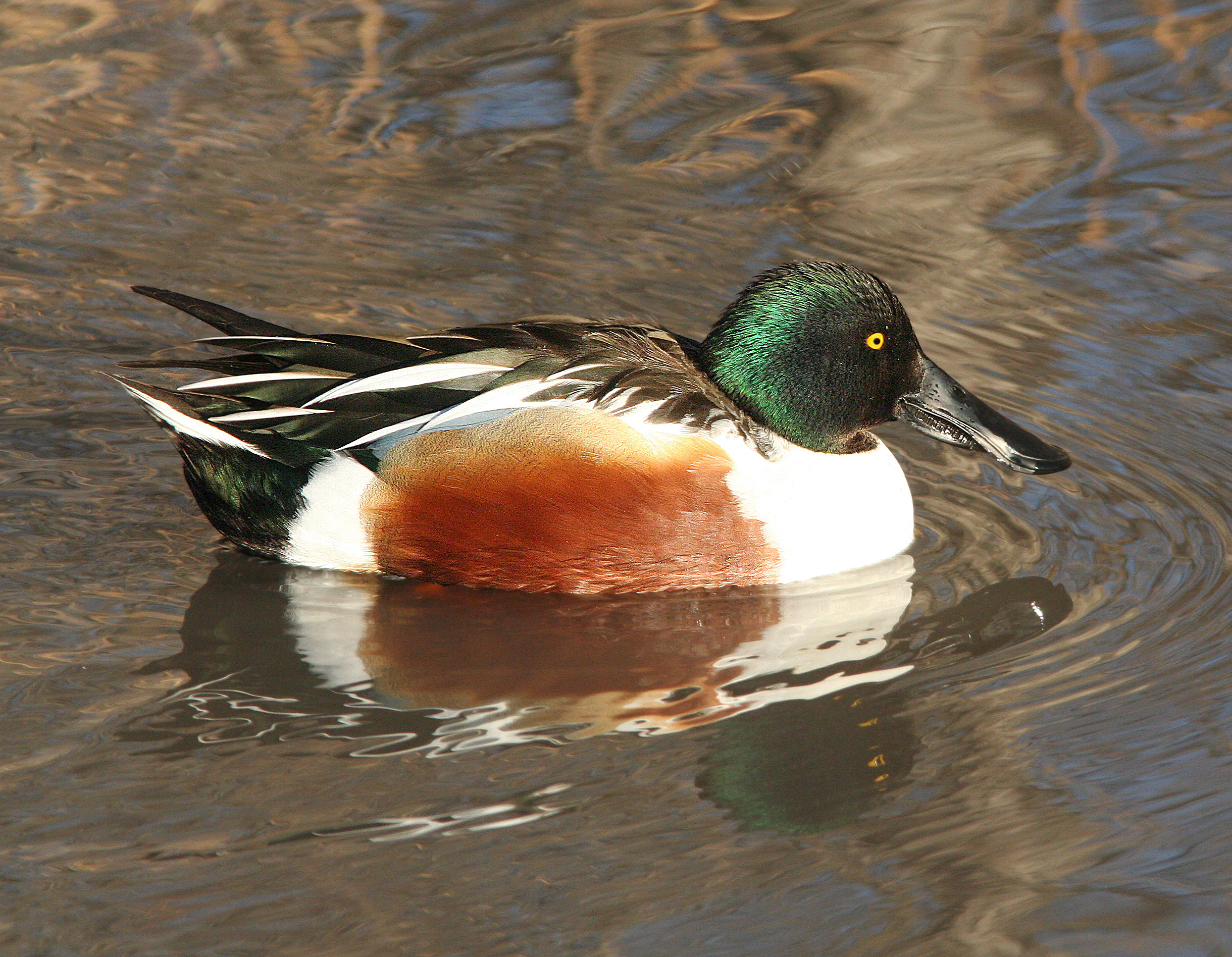 ABA AREA BIRDS: My Photo "Life List"